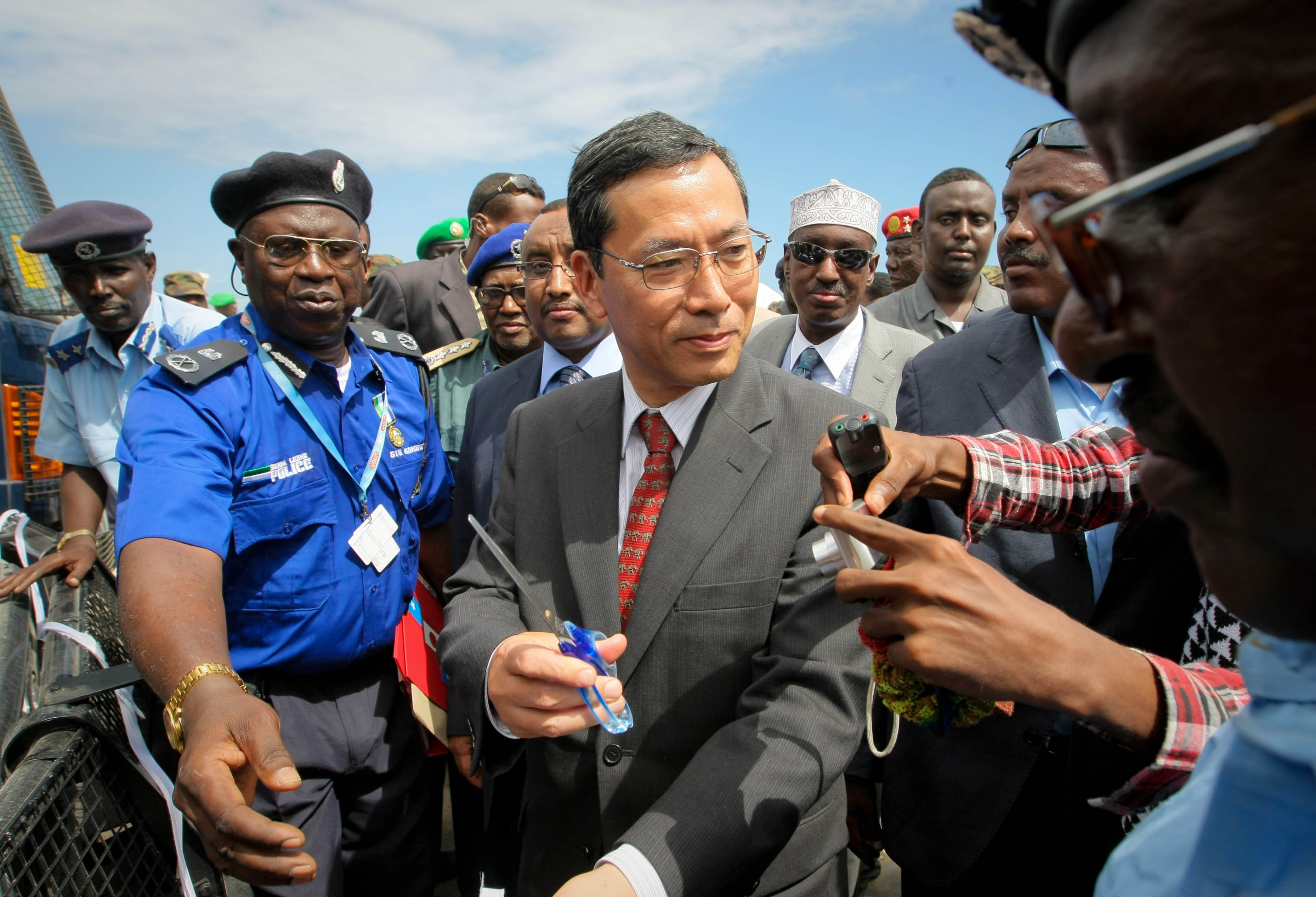 Toshihisa Takata, Japanese Ambassador to Kenya, prepares to cut ribbon 7 May 2012, during a handover ceremony of equipment donated by the Government of Japan through the United Nations Political Office for Somalia (UNPOS) Trust Fund to support the rebuilding of the SPF in the Somali capital Mogadishu. The equipment included a motor transport fleet of 15 pick-up trucks, two troop personnel carries and two ambulances, 1.800 ballistic helmets and sets of handcuffs, over 1,000 VHF radio handsets, and musical instruments for the police band. AU-UN IST PHOTO / STUART PRICE.